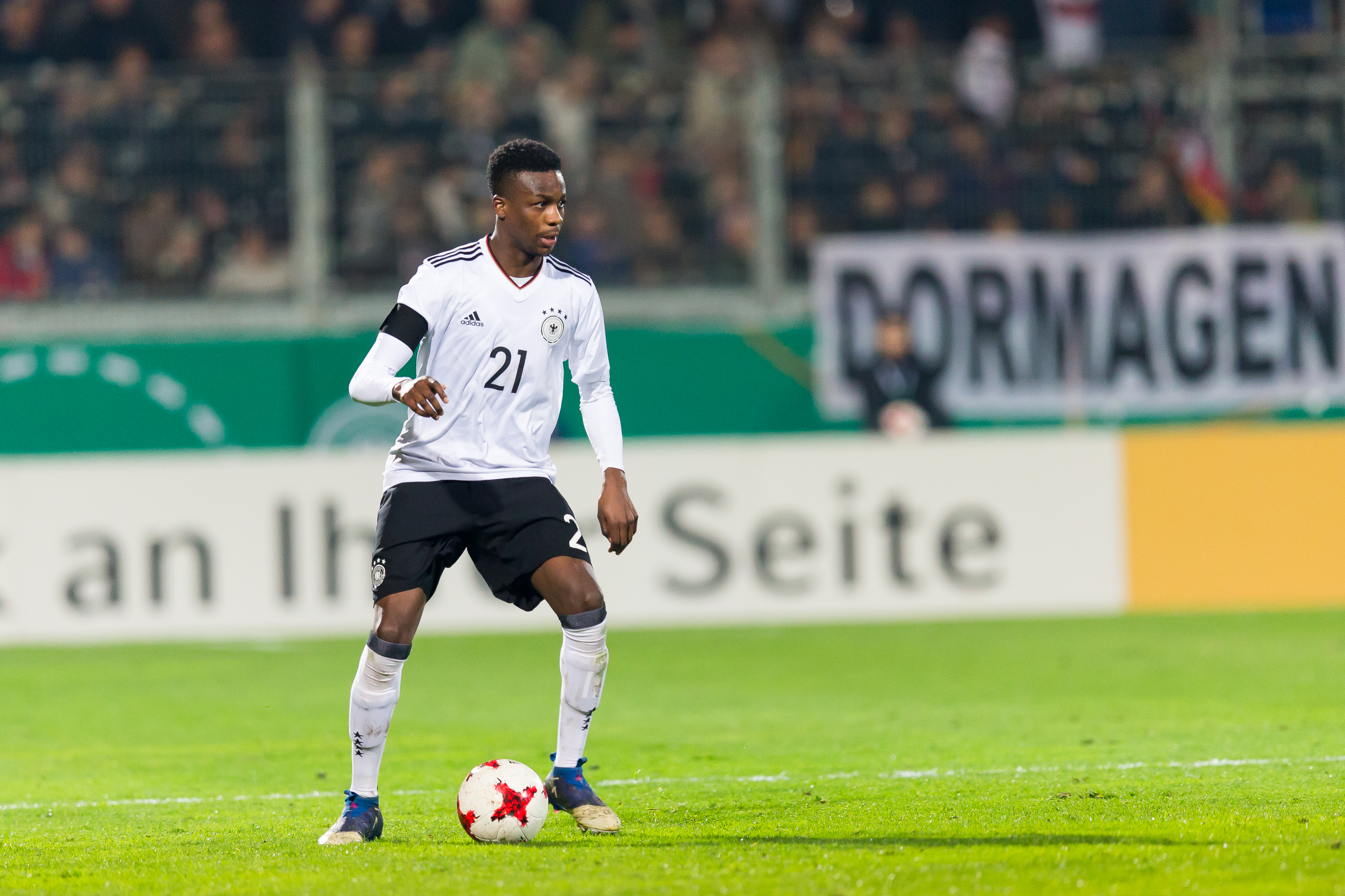 Football U21 Germany vs England (1:0) Team Germany 12 Julian Pollersbeck (1. FC Kaiserslautern) 1 Marvin Schwäbe (Dynamo Dresden) 23 Odisseas Vlachodimos (Panathinaikos Athen) 16 Kevin Akpoguma (Fortuna Düsseldorf) 3 Yannick Gerhardt (VfL Wolfsburg) 5 Matthias Ginter (Borussia Dortmund) 22 Benjamin Henrichs (Bayer 04 Leverkusen) 15 Marc-Oliver Kempf (SC Freiburg) 4 Niklas Stark (Hertha BSC) 13 Jeremy Toljan (1899 Hoffenheim) 2 Mitchell Weiser (Hertha BSC) 18 Nadiem Amiri (1899 Hoffenheim) 10 Maximilian Arnold (VfL Wolfsburg) 25 Hany Mukhtar (Brøndby IF) 7 Max Meyer (FC Schalke 04) 19 Janik Haberer (SC Freiburg) 21 Gideon Jung (Hamburger SV) 20 Levin Öztunali (1. FSV Mainz 05) 17 Maximilian Philipp (SC Freiburg) 9 Davie Selke (RB Leipzig) 27 Thilo Kehrer (FC Schalke 04) Team England 1 Jordan Pickford (Sunderland) 2 Mason Holgate (Everton) 13 Angus Gunn (Manchester City) 21 Christian Walton (Brighton) 16 Kortney Hause (Wolverhampton) 5 Jack Stephens (Southampton) 15 Rob Holding (Arsenal) 12 Joe Gomez (Liverpool) 3 Ben Chilwell (Leicester City) 6 Alfie Mawson (Swansea City) 22 Sam McQueen (Southampton) 4 Nathaniel Chalobah (Chelsea) 14 Will Hughes (Derby County) 20 Ruben Loftus-Cheek (Chelsea) 10 Lewis Baker (Vitesse Arnheim) 18 John Swift (Reading) 23 Jack Grealish (Aston Villa) 8 Harry Winks (Hotspur) 19 Cauley Woodrow (Fulham) 9 Tammy Abraham (Bristol City) 17 Solly March (Brighton) 11 Jacob Murphy (Norwich) during Fussball U21 Deutschland vs England at Brita-Arena, Wiesbaden, Hessen, Germany on 2017-03-24, Photo: Sven Mandel